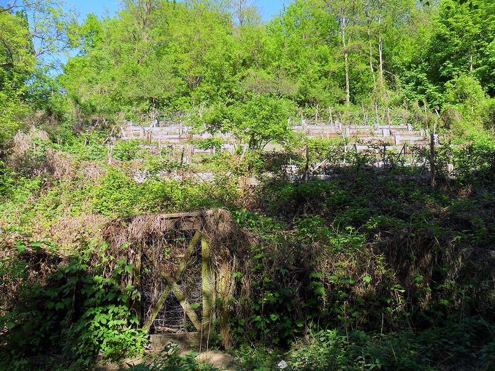 Former Vineyards at Teufelsberg in Berlin-Grunewald.